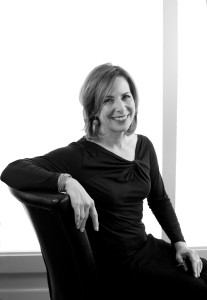 Pam Muñoz Ryan Author